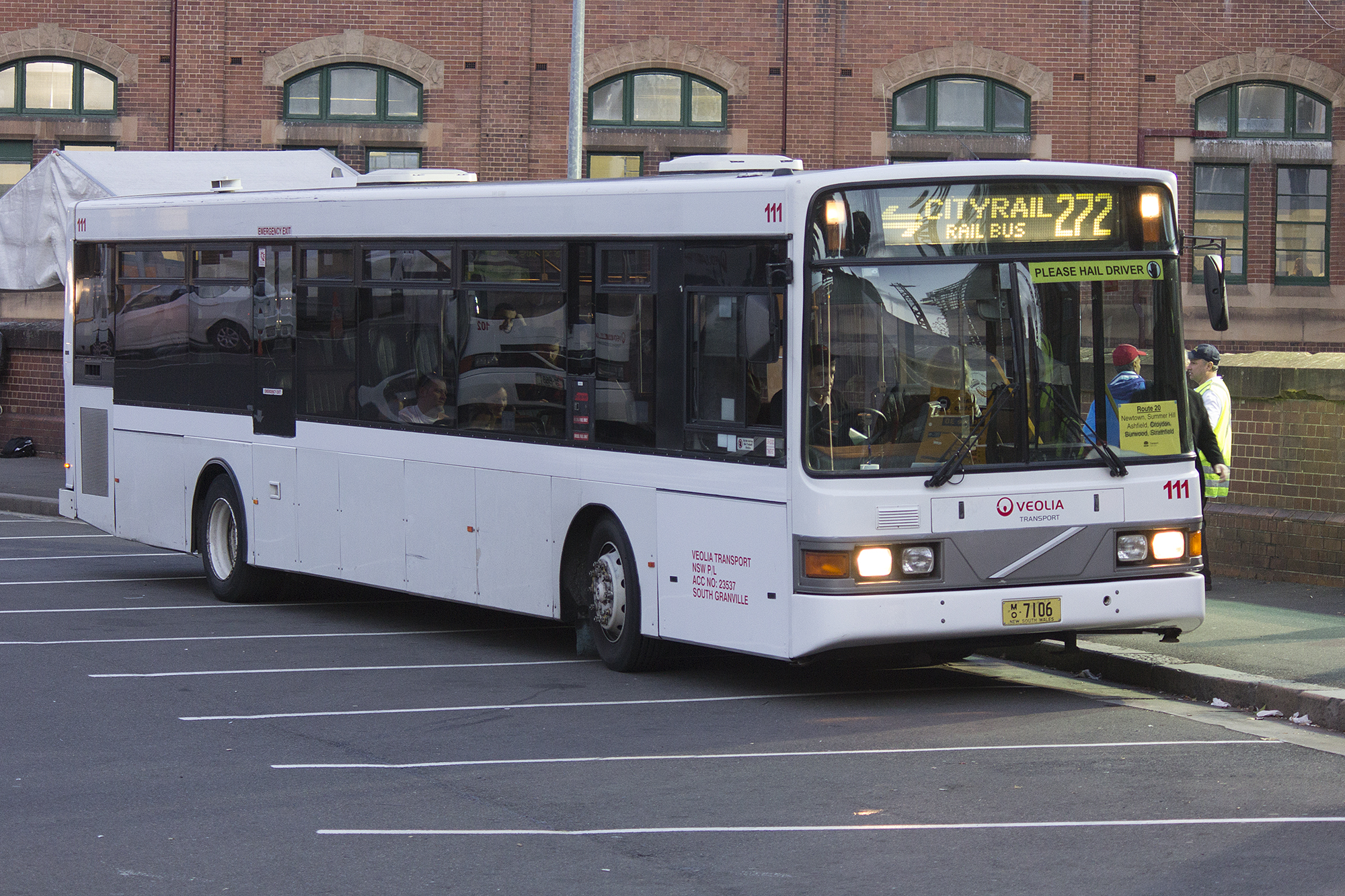 Veolia Transport (mo 7106) Volgren 'CR221L' bodied Volvo B10L at Central Station in Sydney.